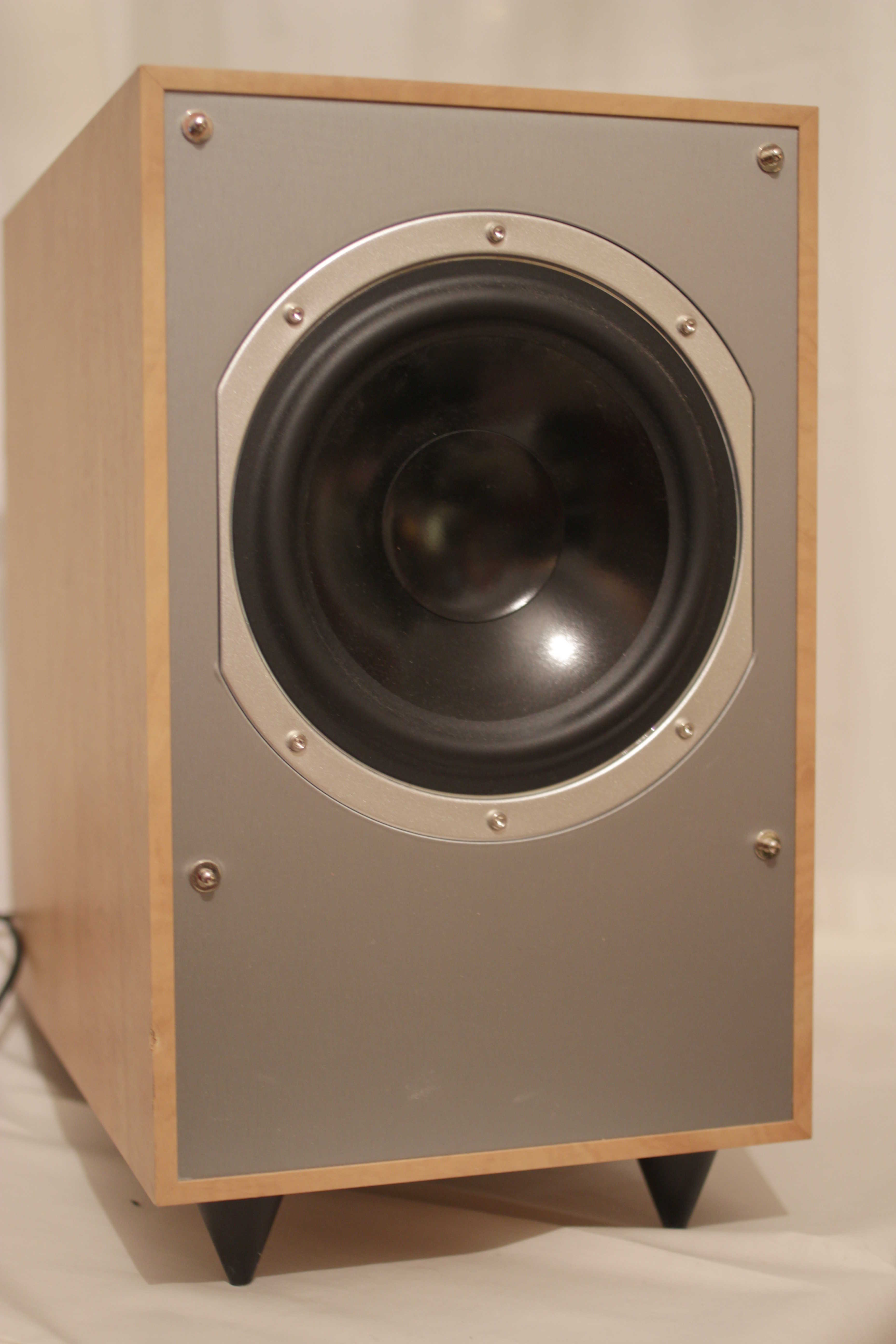 Active subwoofer "Proson Blackbird Sub 8.1", manufactured by Proson AB, Sweden.